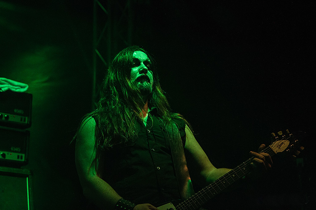 God Seed - 7.12.2012 - Music Hall, Geiselwind